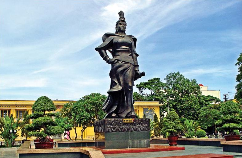 Statue of Madam Lê Chân in Haiphong, Vietnam.